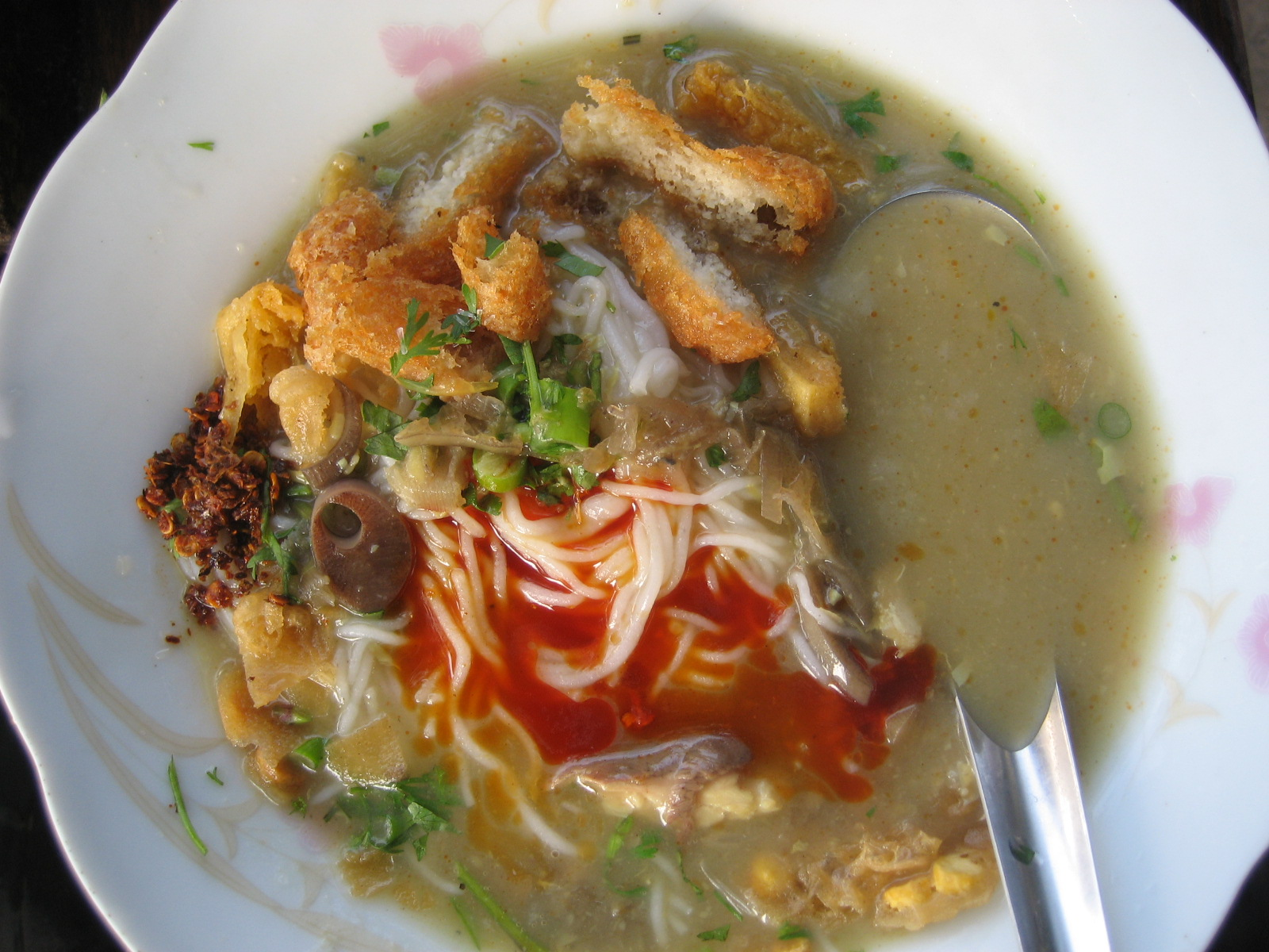 Mohinga with fritters, baya gyaw (urad dal) - top of picture, and pè gyan gyaw (split chickpea) - left and bottom of picture, both cut or fragmented. Note also sliced bits of the tender core of banana stem.